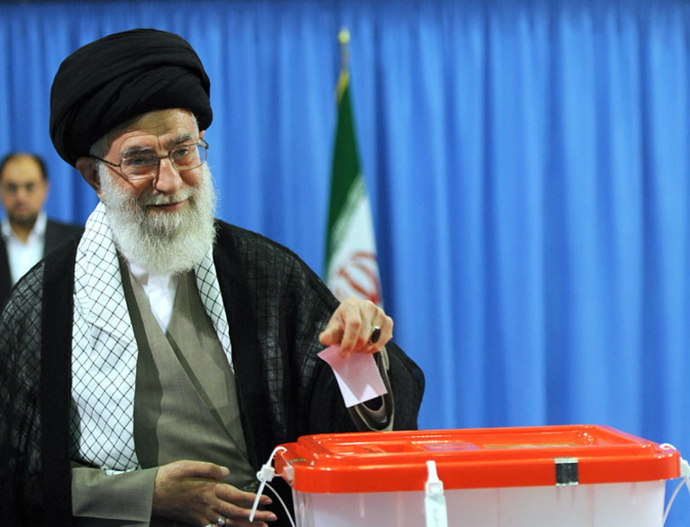 Supreme leader Ali Khamenei casts his vote to elect a new president in his office at the first hour of 2013 Presidential election day.